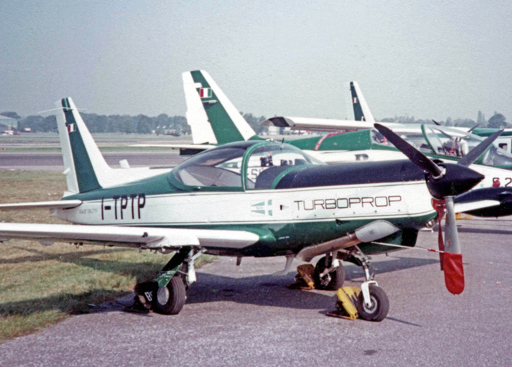 SIAI-Marchetti SF.260TP I-TPTP turboprop demonstrator at the 1982 Farnborough Airshow